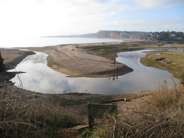 Shingle Spit at the Mouth of the River Otter This winter scene of the mouth of the River Otter shows a classic ox-bow bend in the river. The coastal path at this point turns north as the river is too deep to safely wade across at this point ... unless you are prepared to get quite wet.